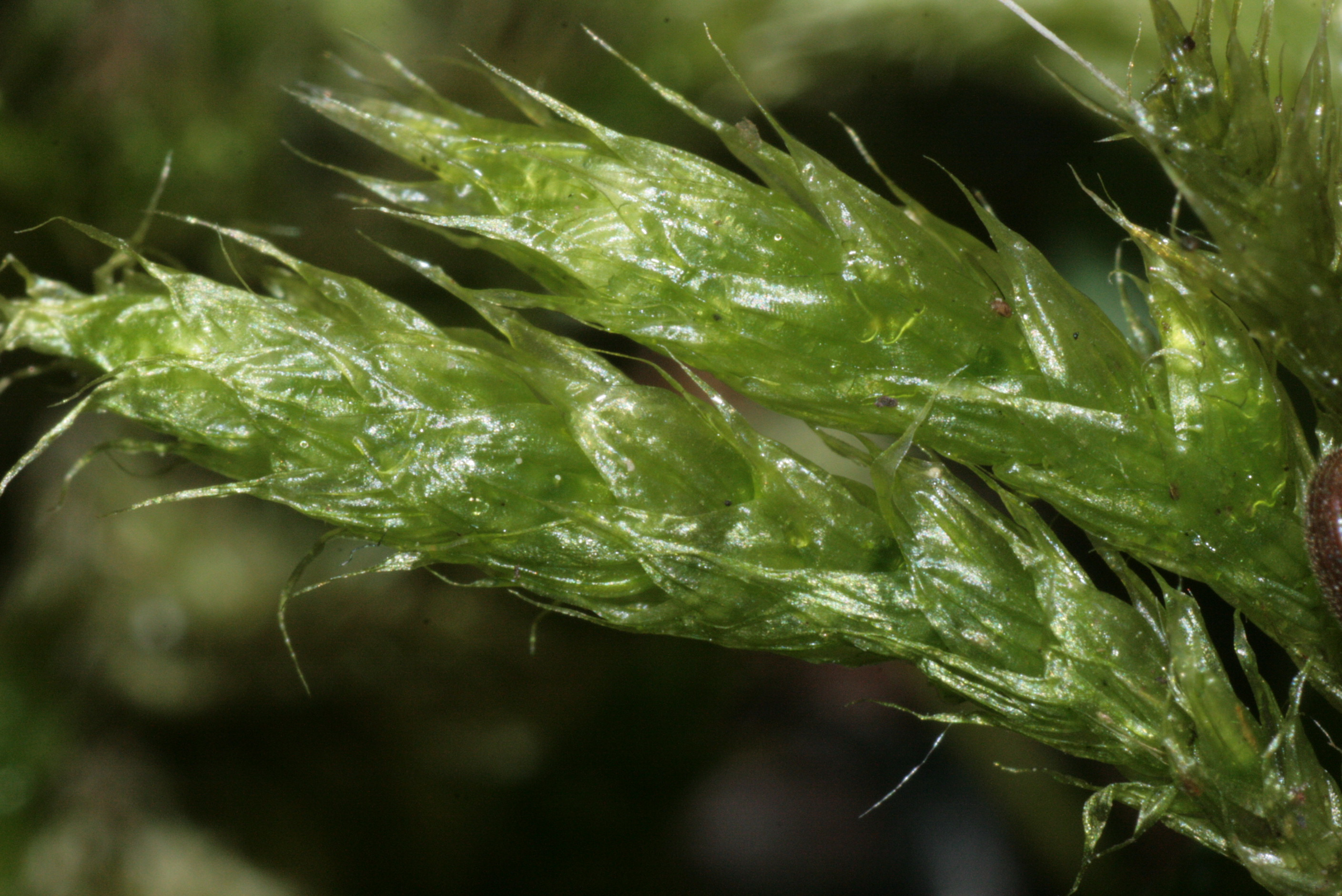 Brachythecium glareosum